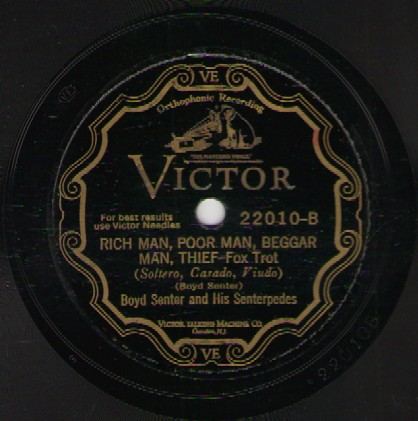 boyd senter orchestra rich man victor shellaqck